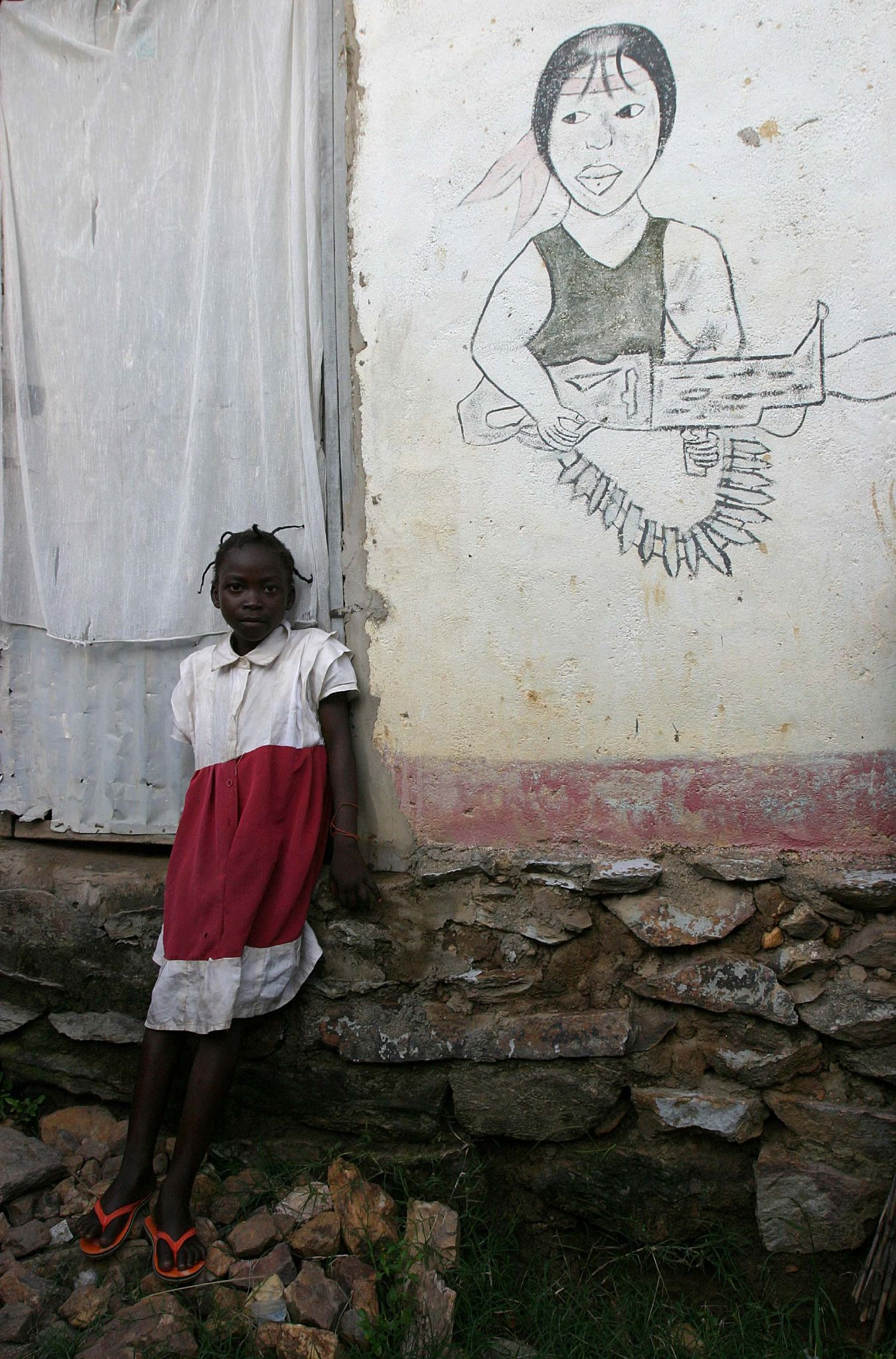 Girl in front of destroyed homes in Ngaoundaye, Central African Republic. Since early 2007, the troubled region has been caught up in fighting between APRD rebels and government troops. © Pierre Holtz | OCHA